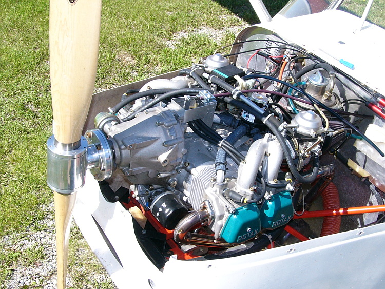 I took this photo of a Blue Yonder Merlin Rotax 912S engine installation.